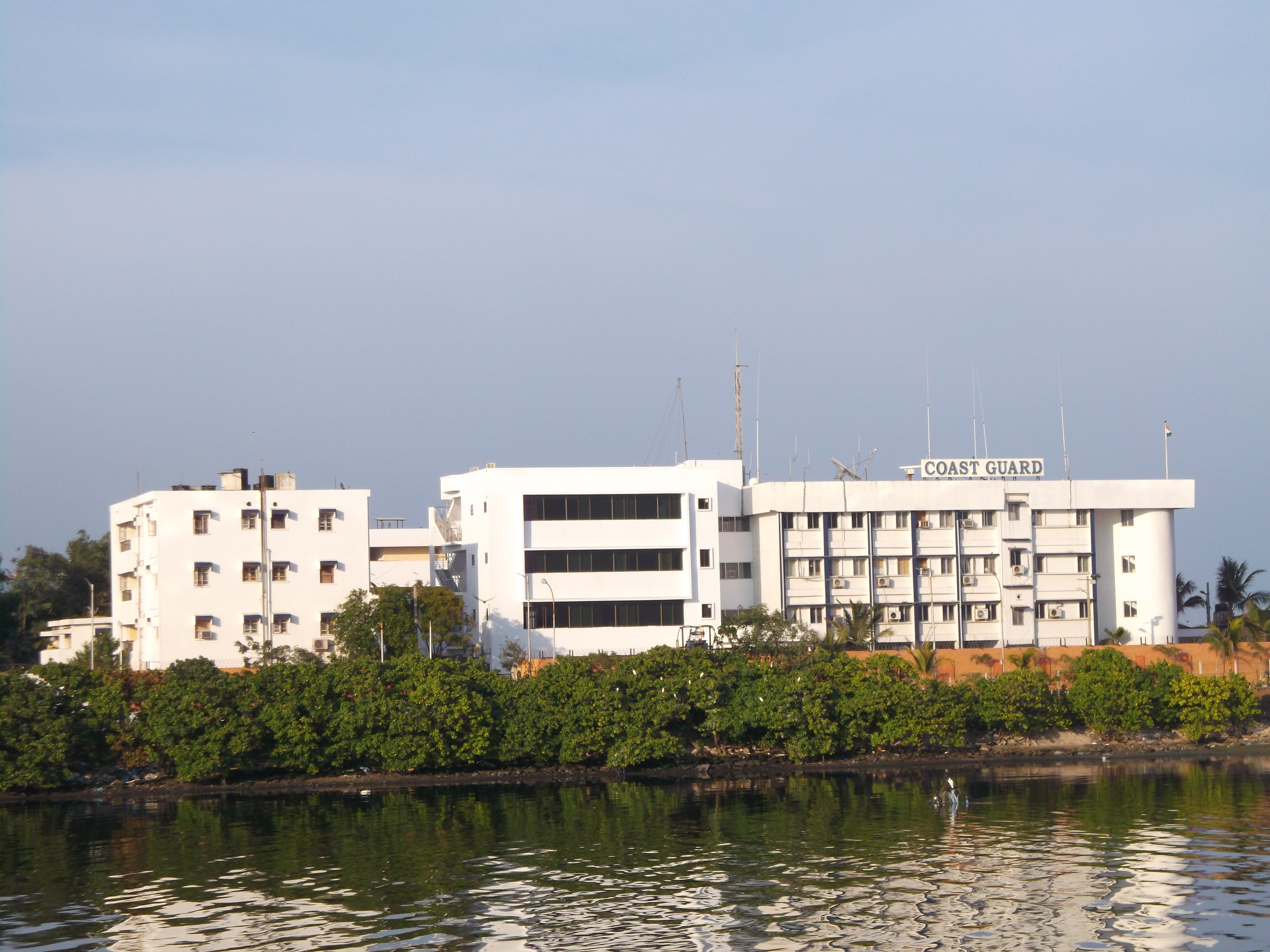 Coast Guard building on the banks of Cooum, Chennai, taken on 2-Feb-2013 at 5:10 pm